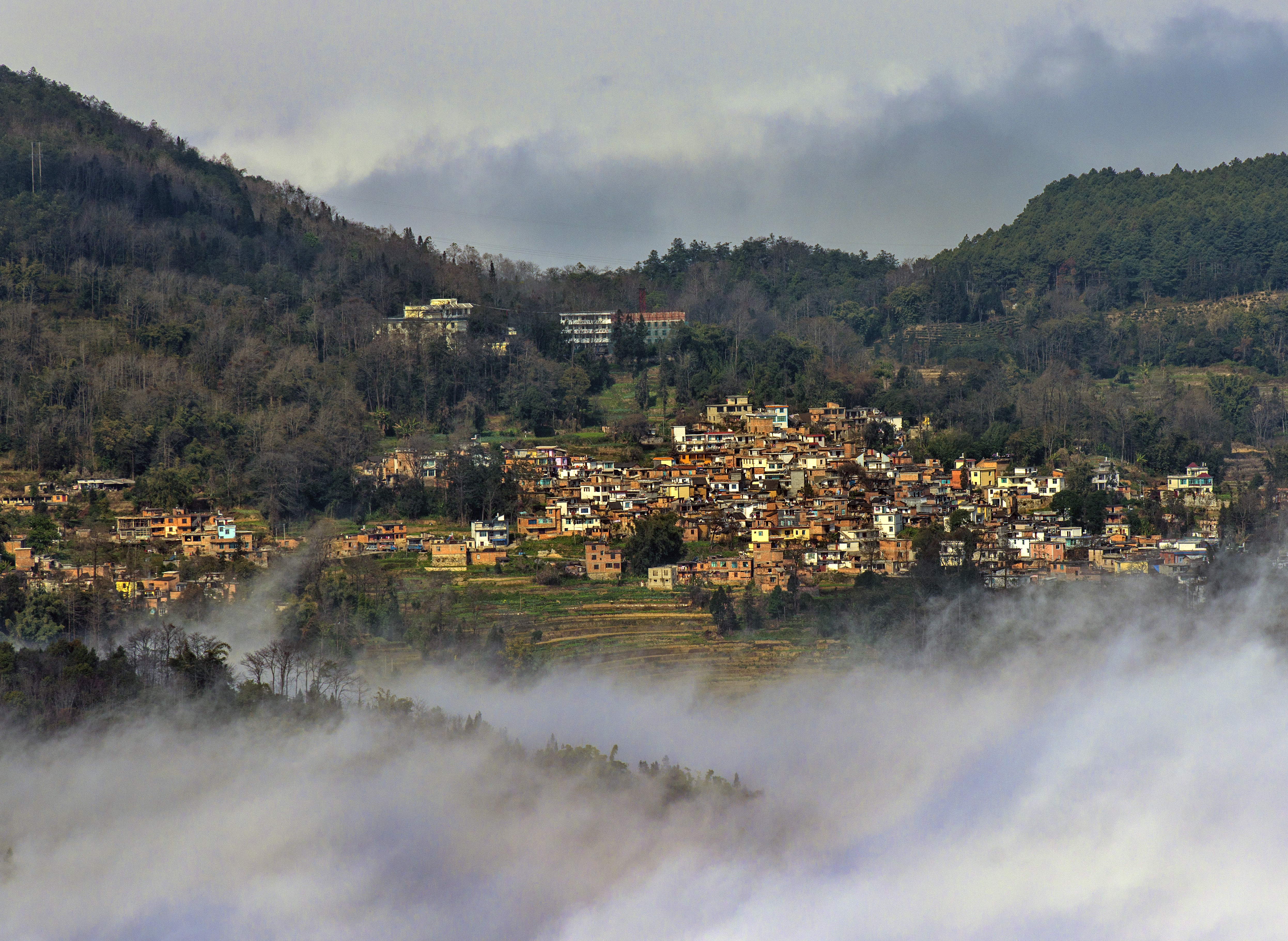 yuanyang county yunnan china rice terrace sea of clouds view of village from bada 2012